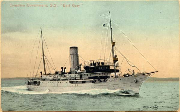 Postcard of Canadian S.S. Earl Grey, later known as Icebreaker Feodor Litke